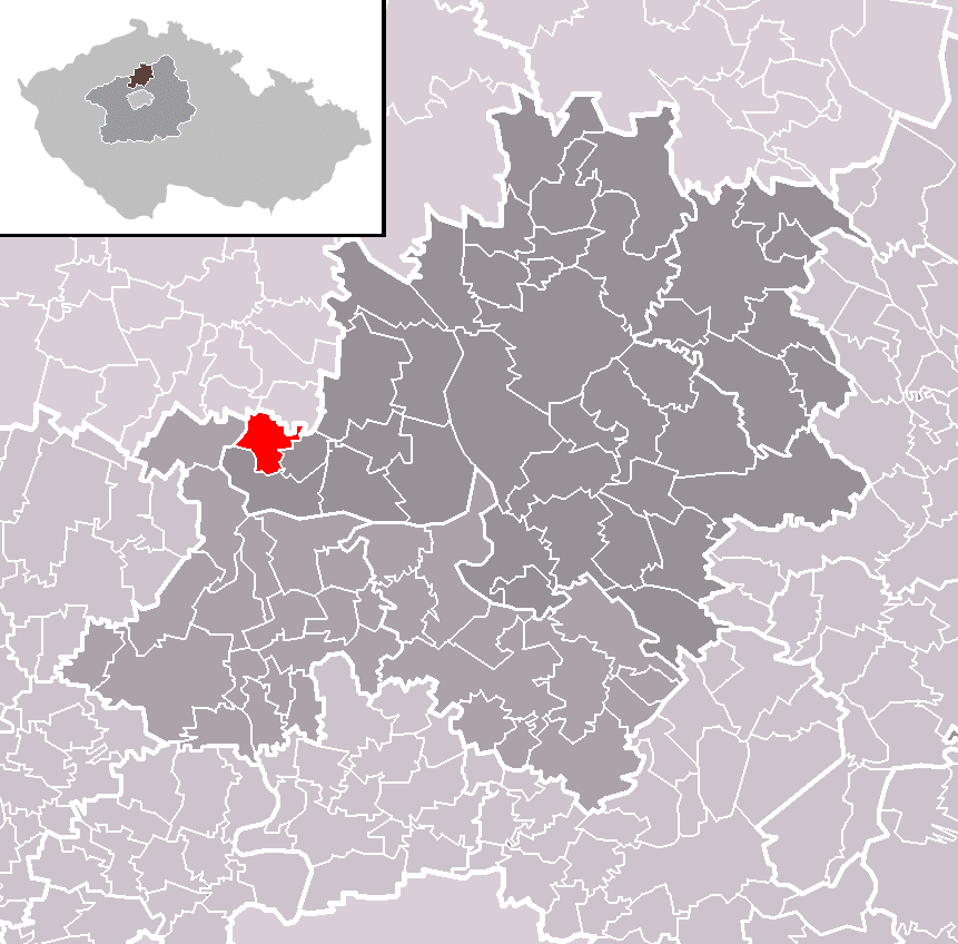 Location of Jeviněves municipality within Mělník District and administrative area of Mělník as a Municipality with Extended Competence.